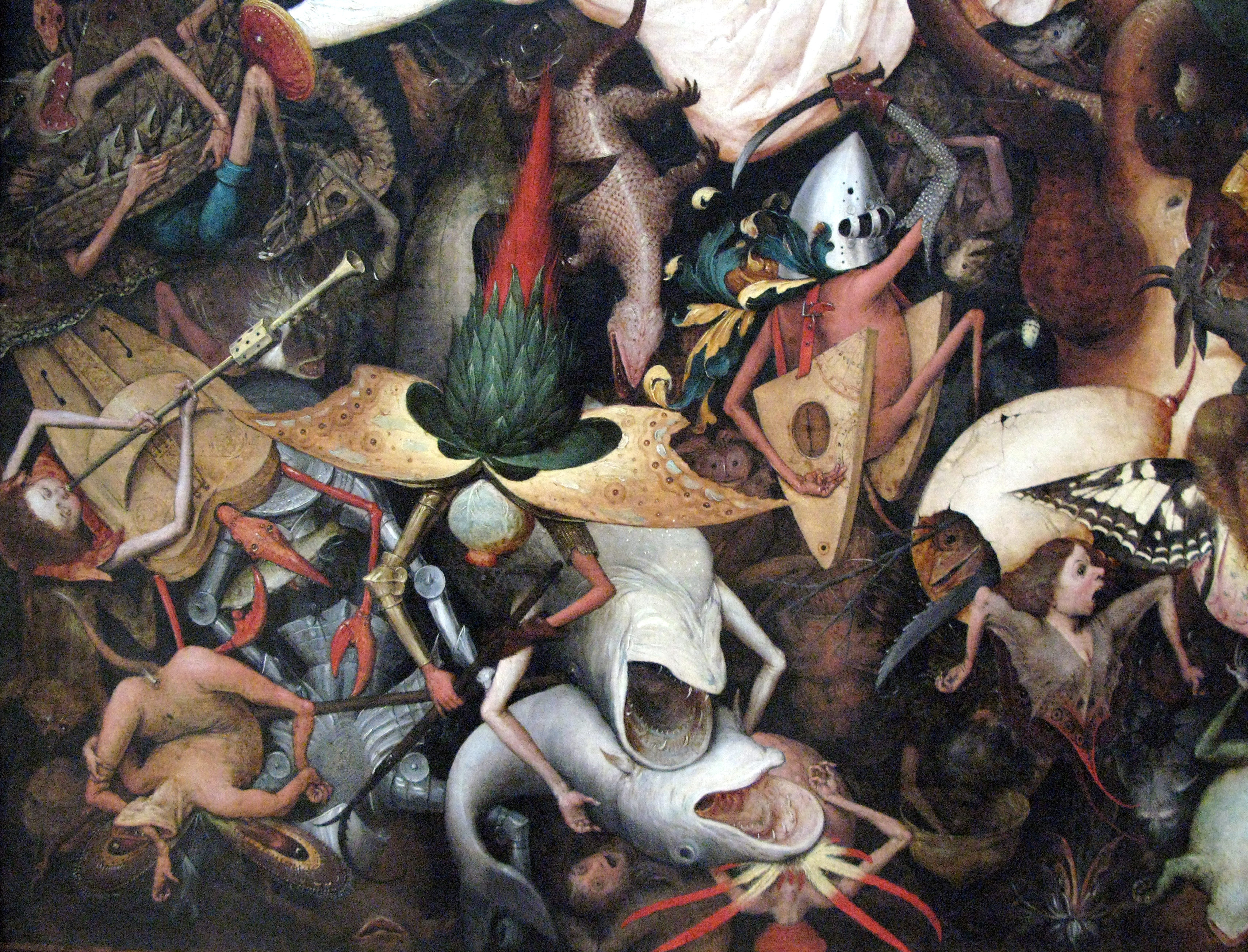 Pieter Bruegel the Elder - The Fall of the Rebel Angels (1562) Pieter Brueghel the Elder (1526/1530–1569) Alternative namesPieter Breugel, Pieter Breughel, Pieter Brueghel, Peasant BrueghelDescription Southern Netherlandish painter, draughtsman and printmaker Date of birth/deathbetween 1526 and 15309 September 1569Location of birth/deathBrueghel, Breda (?)BrusselsWork locationAntwerp (1551–1563), Italy (1553), Brussels (1563–1569)Authority controlVIAF: 95761864 | LCCN: n80162848 | GND: 118674013 | WorldCat | WP-Person